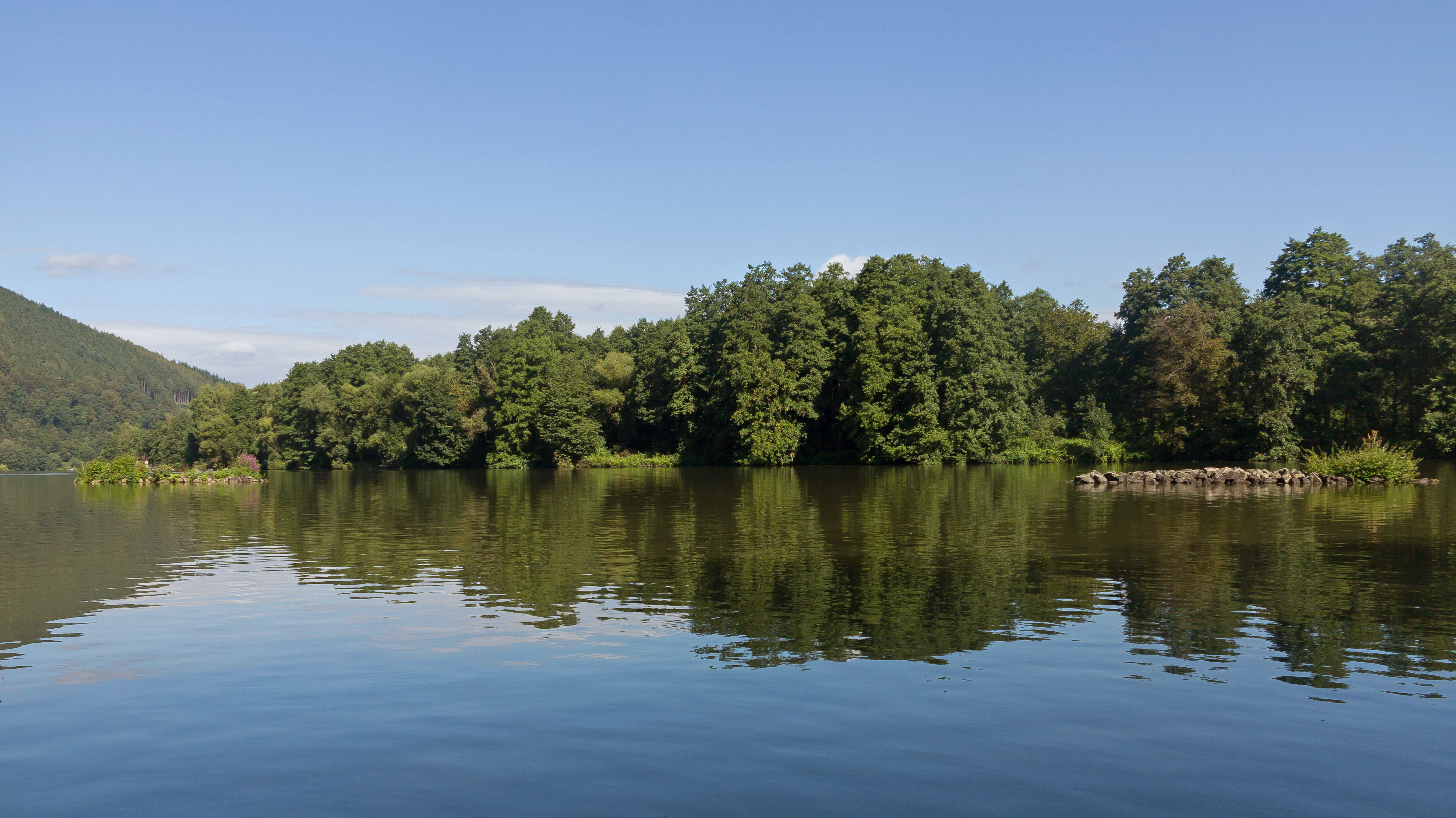 between Faulbach and Hasloch, view to den Main